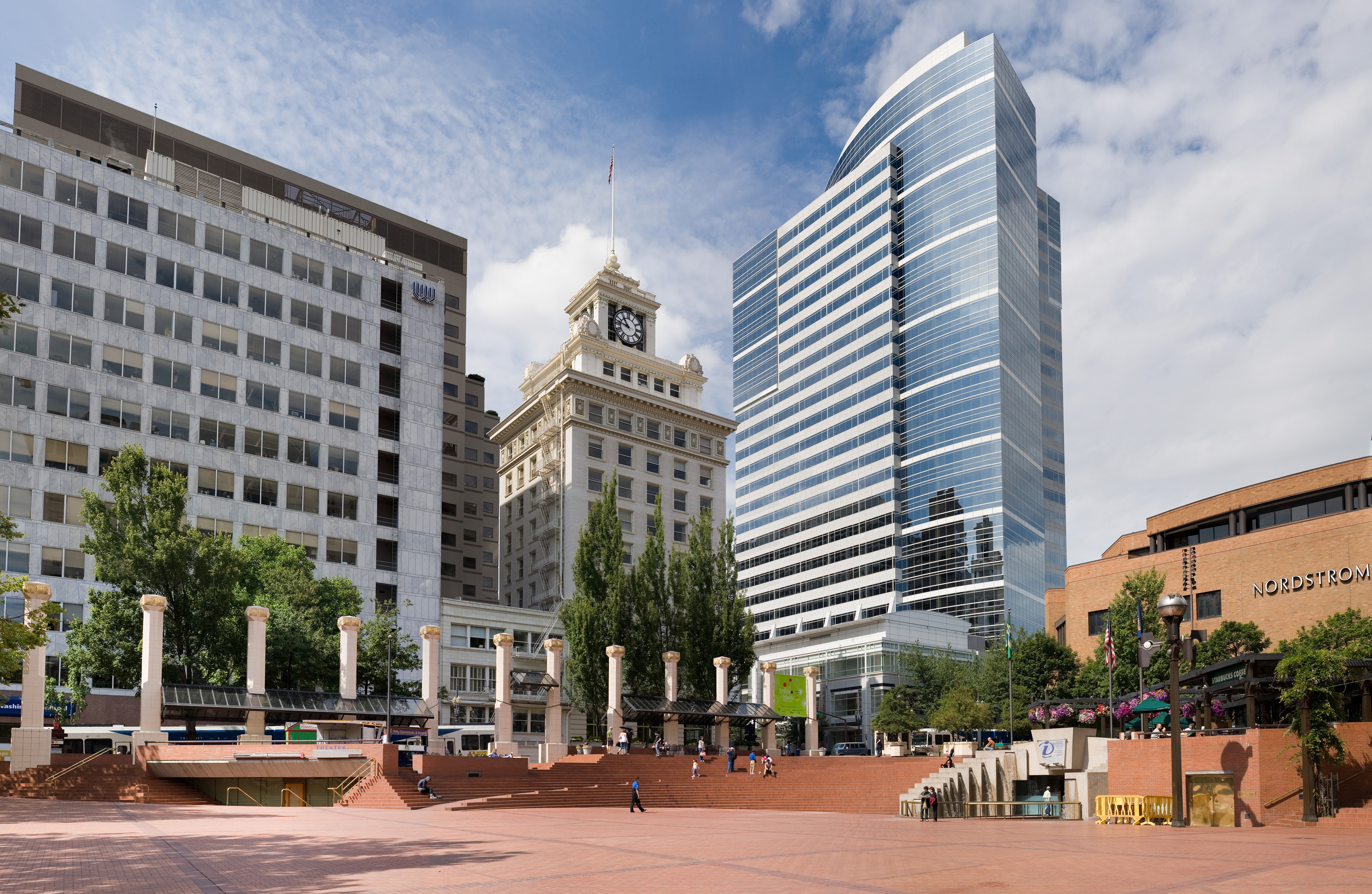 Pioneer Courthouse Square in Portland, Oregon. At center is Jackson Tower, which is listed on the National Register of Historic Places as the Journal Building.